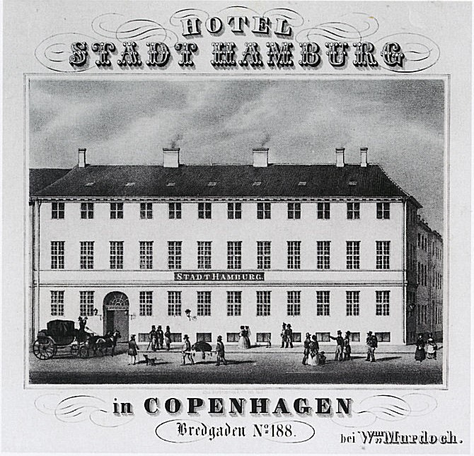 Advertisement for Hotel Stadt Hamburg, now Hotel Phoenix, in Copenhagen, Denmark